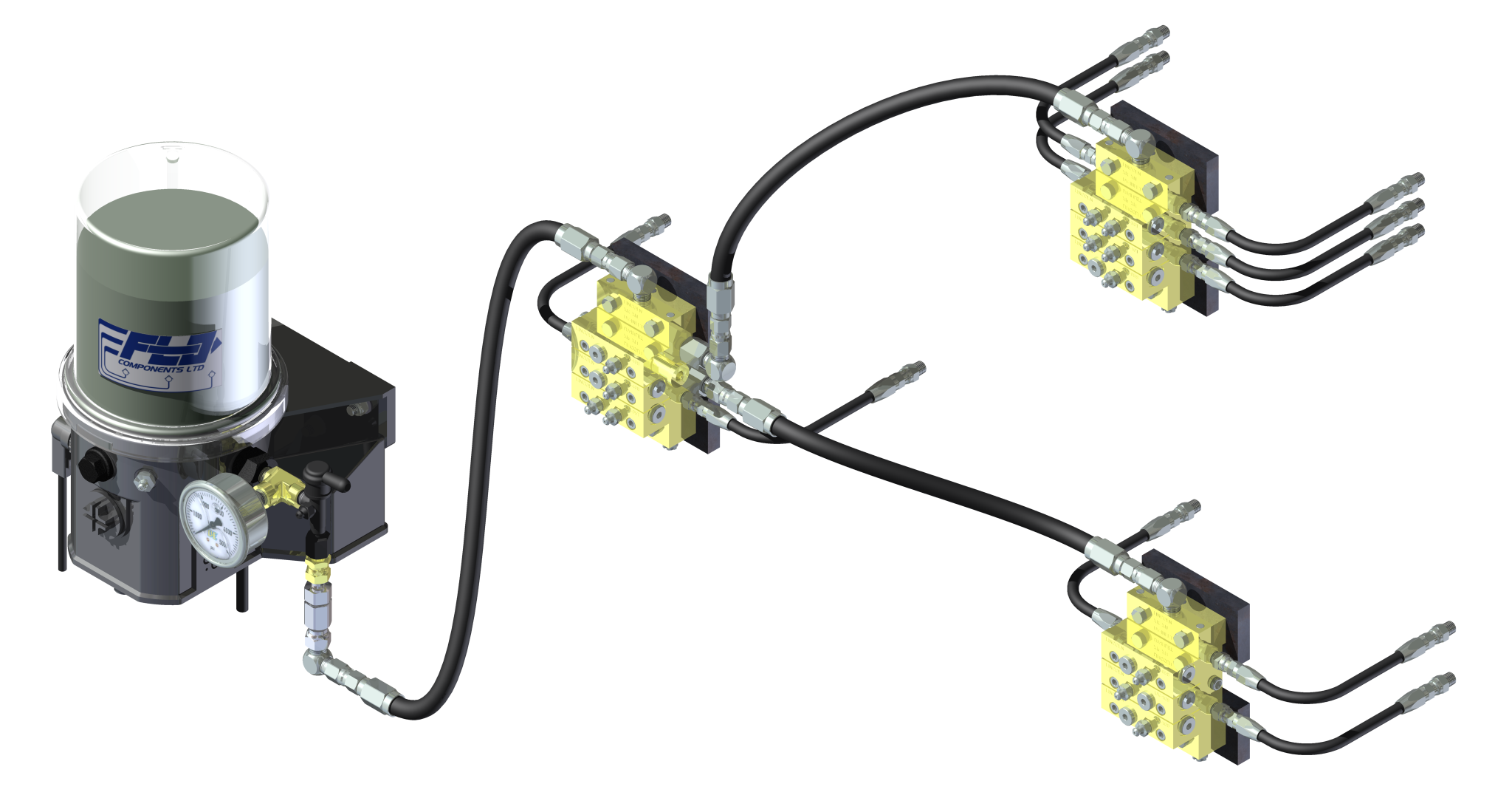 This picture shows a Single Line Progressive Automatic Lubrication System from FLO Components Ltd